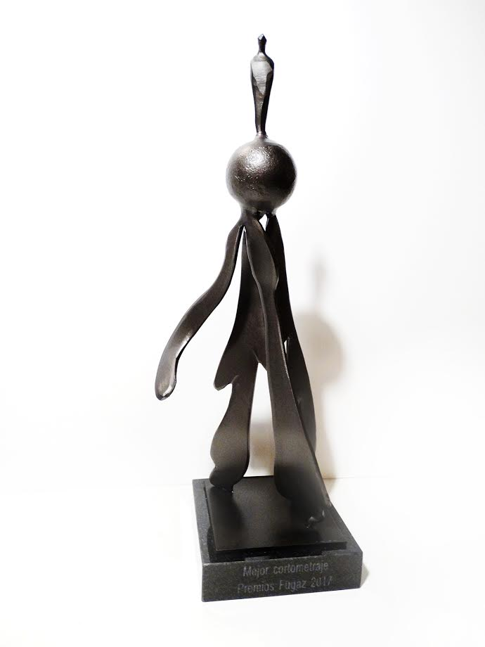 Premios Fugaz for Spanish short film awards